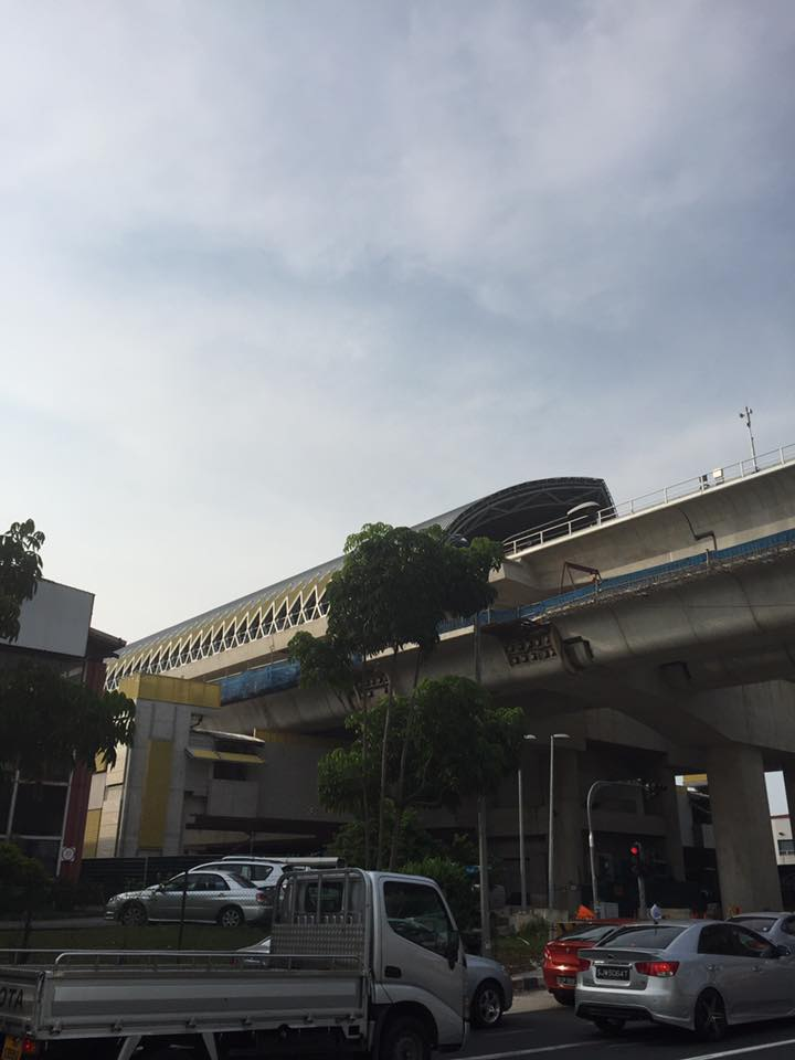 Under construction as of 2016 April.